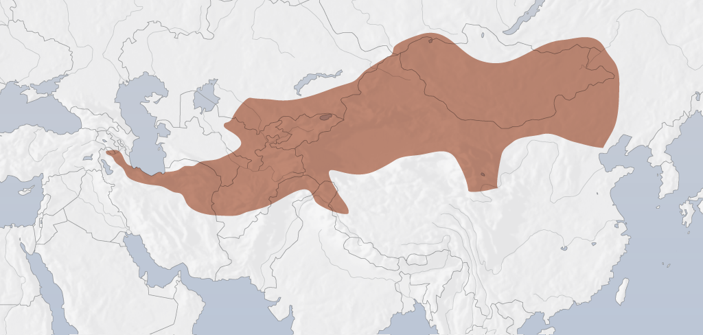 Distribution of the Mongolian Trumpeter Finch Bucanetes mongolicus